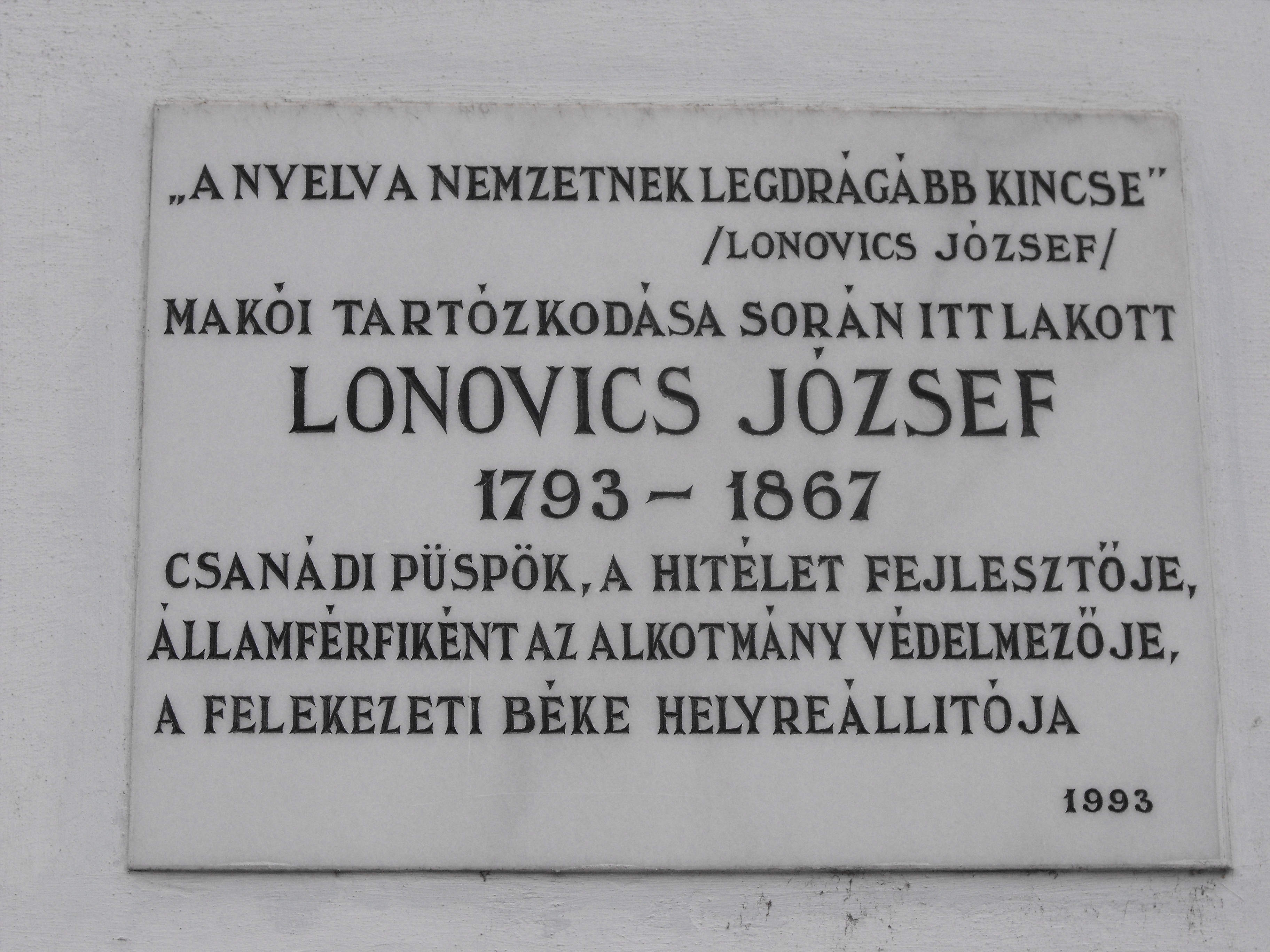 Memorial tablet of József Lonovics, Bishop of Csanád in Makó, Hungary.